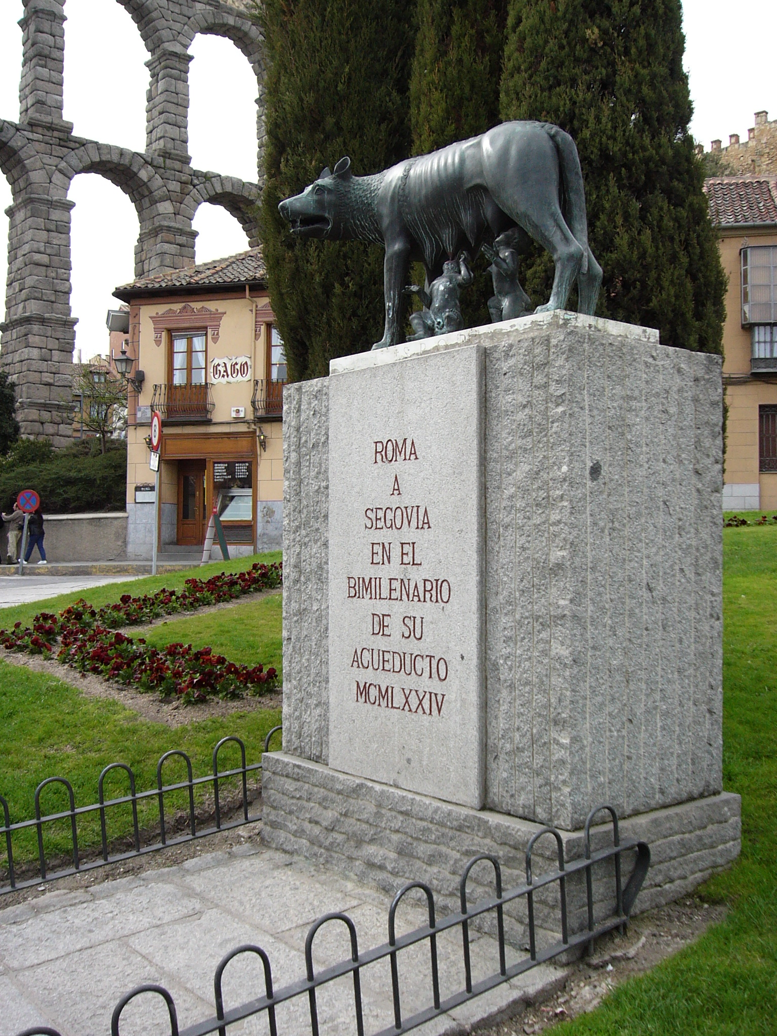 Description: 2000 years of the Aqueduct City: Segovia Country : Spain Photographer: © Manuel González Olaechea y Franco Shot date : March 23rd, 2004